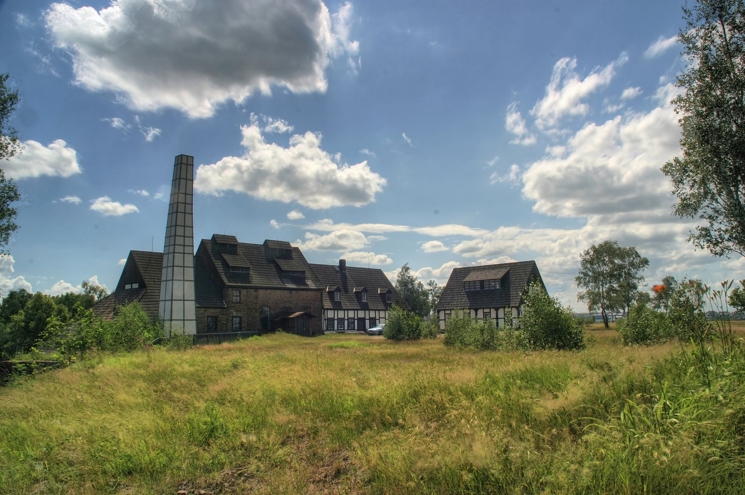 Historic silver mine "Alte Elisabeth" in Freiberg, Saxony, Germany.